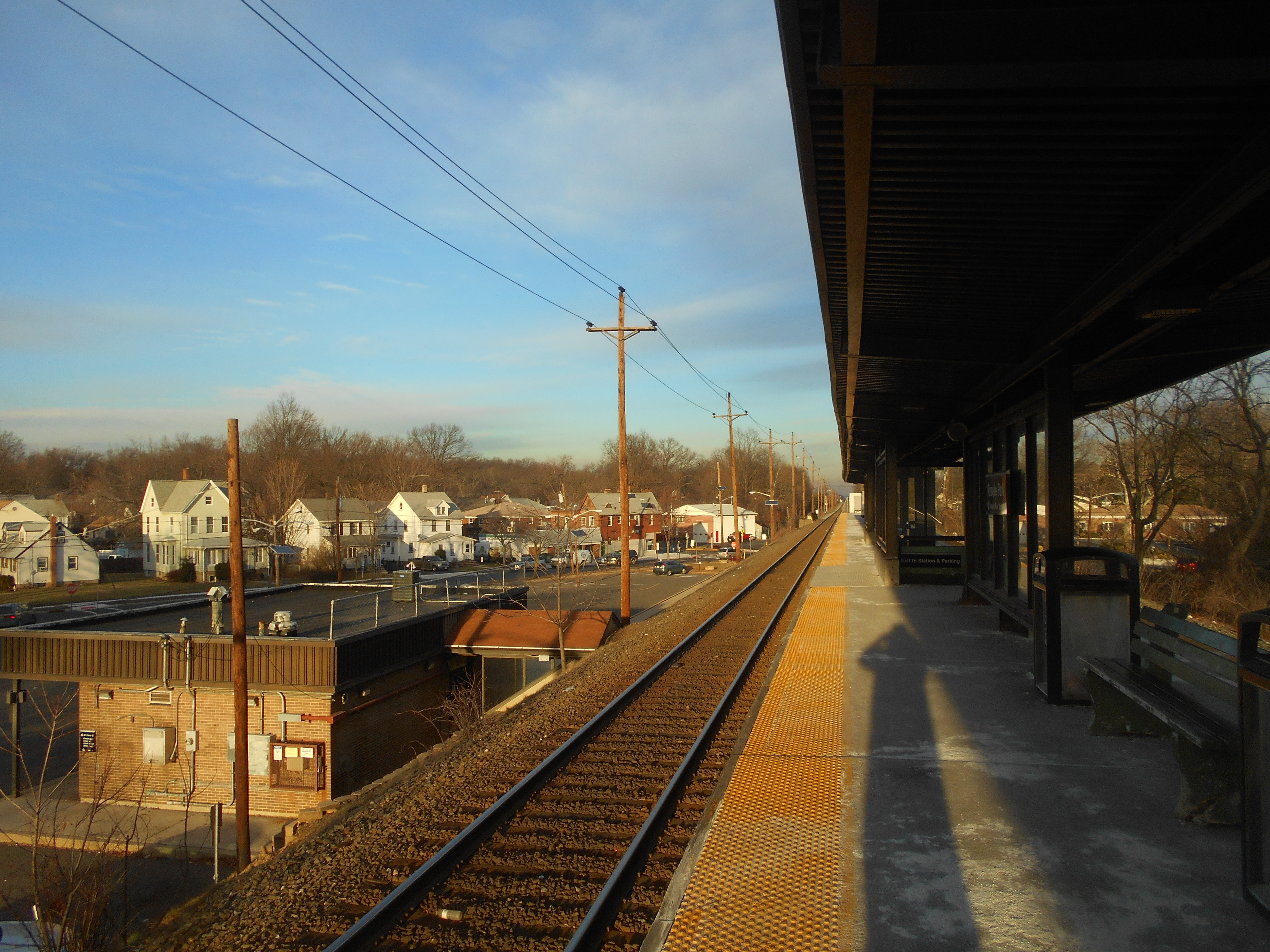 The Roselle Park station for New Jersey Transit in Roselle Park, New Jersey.